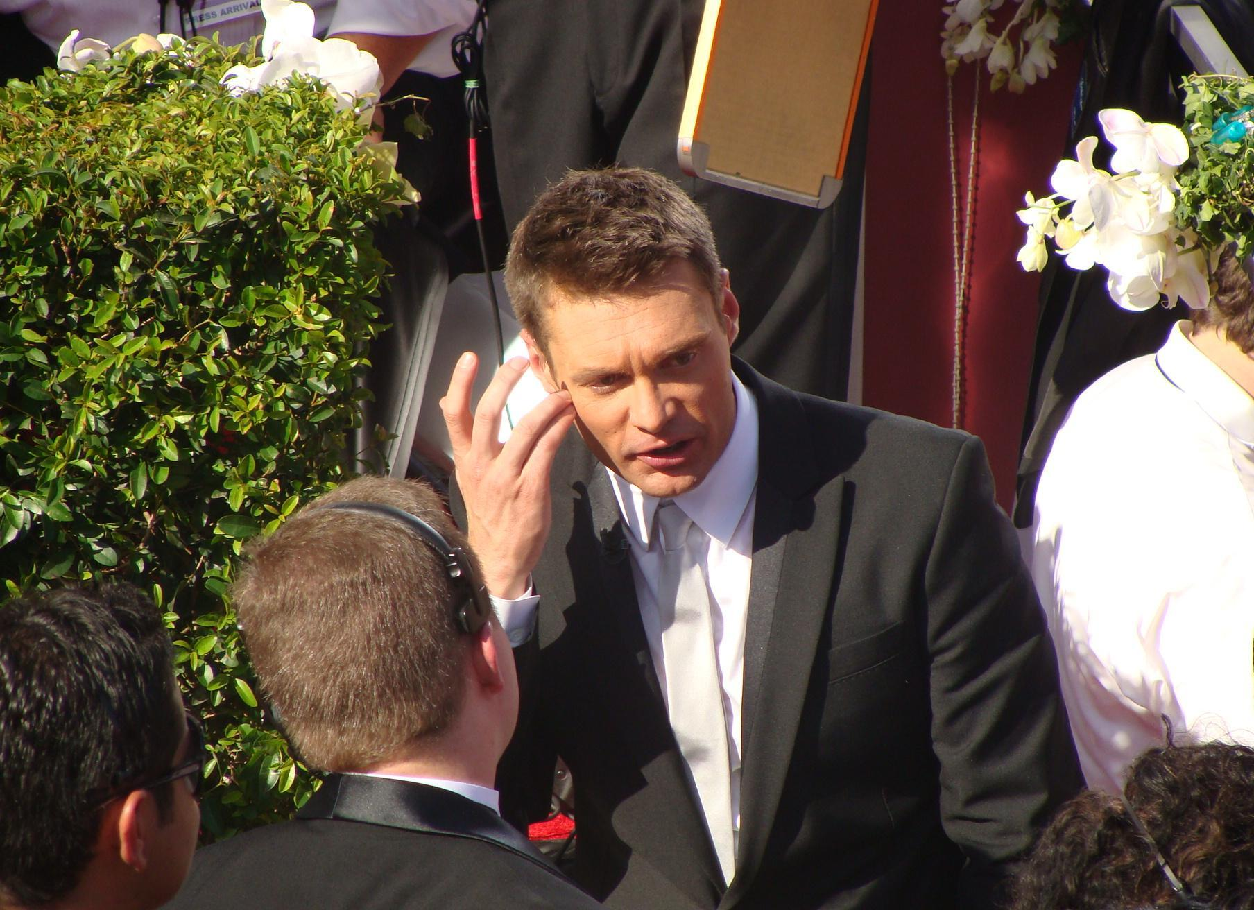 Host Ryan Seacrest at 2008 Primetime Emmys at Nokia Plaza in Los Angeles, CA